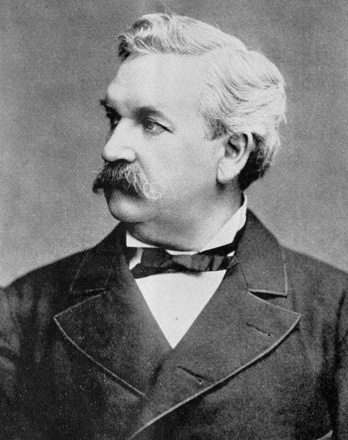 Engraving of actor and entomologist Henry Edwards (1830–91), taken before his death